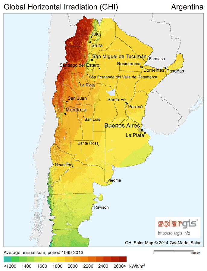 Solar Radiation Map: Global Horizontal Irradiation Map of Argentina, SolarGIS. English version.